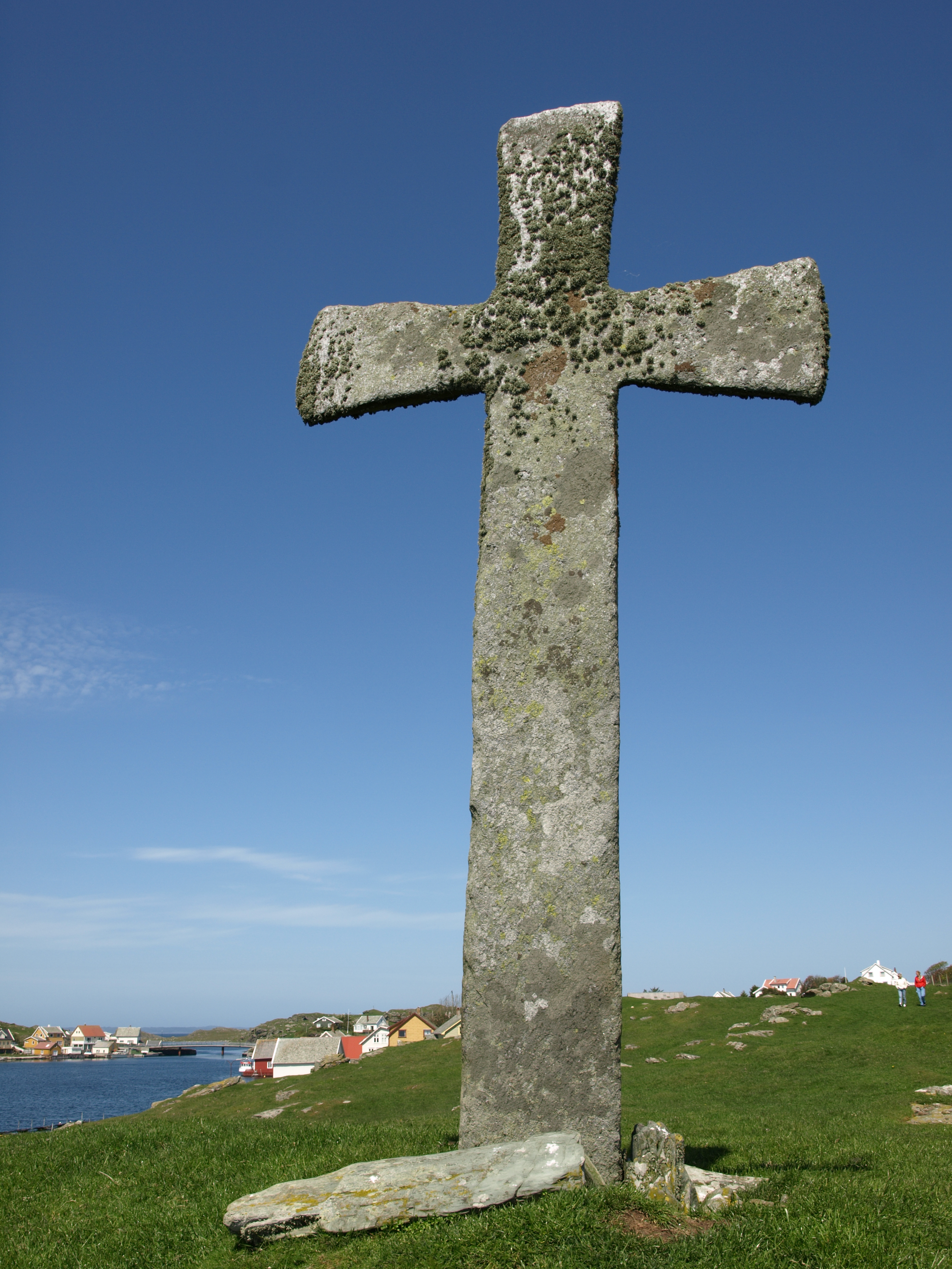 Stone Cross by Leia sound is Kvitsøy most famous past memory. It has an altitude of 3.9 meters. The cross is visible from the fairway, and has always been a familiar sea and sailing brand. No one knows for sure when the cross was set up, but there must be at least 1000 years old. It is purified by salt water and wind. English missionaries may have already raised the cross on the 900's. Since there has been a landmark for sailors, from the Viking Age to the present. Snorri Sturluson relates that Erling Skjalgsson and Olav Haraldsson was a settlement of this cross in 1016